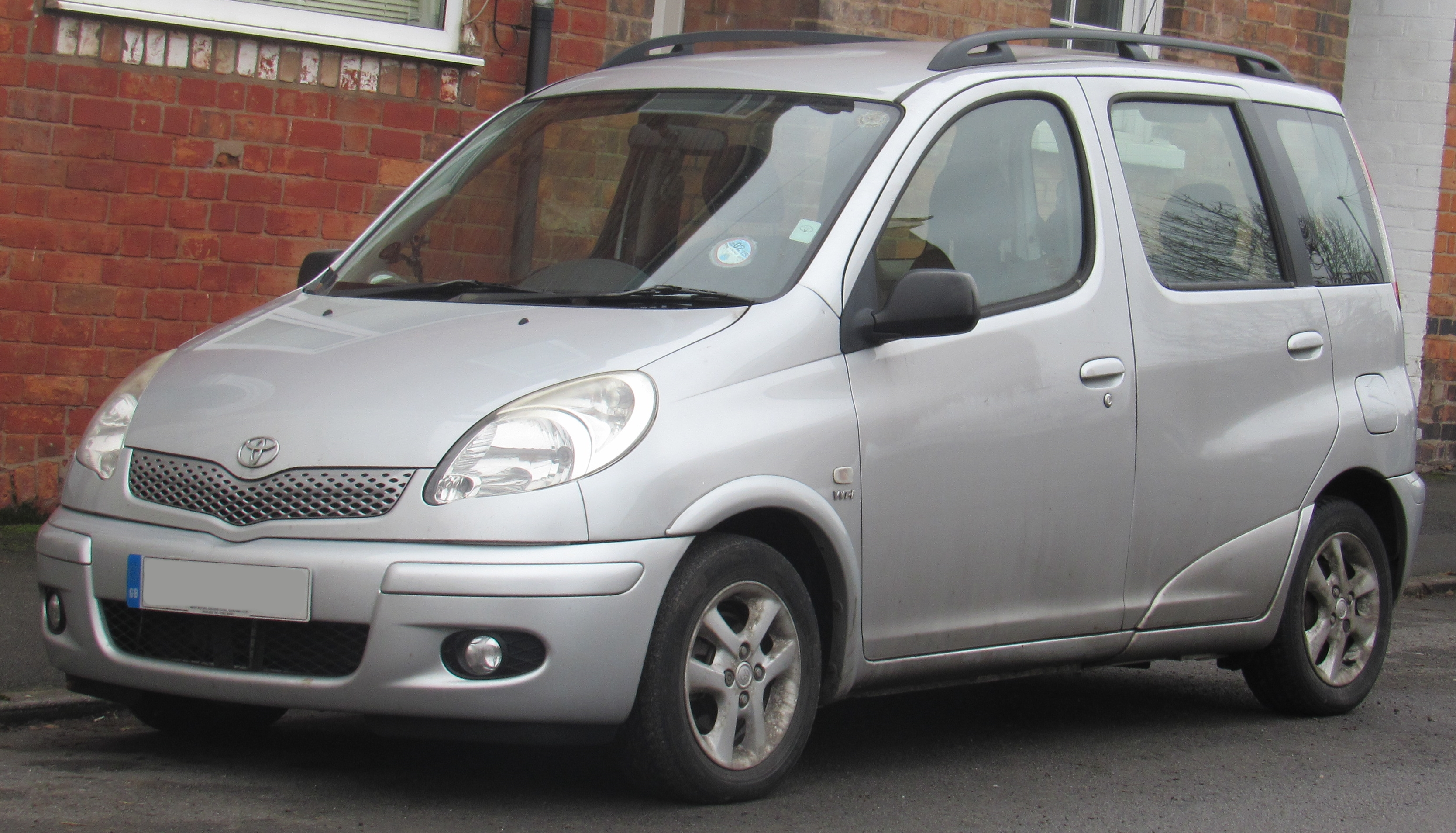 2005 Toyota Yaris Verso T Spirit 1.3 Front Taken in Warwick